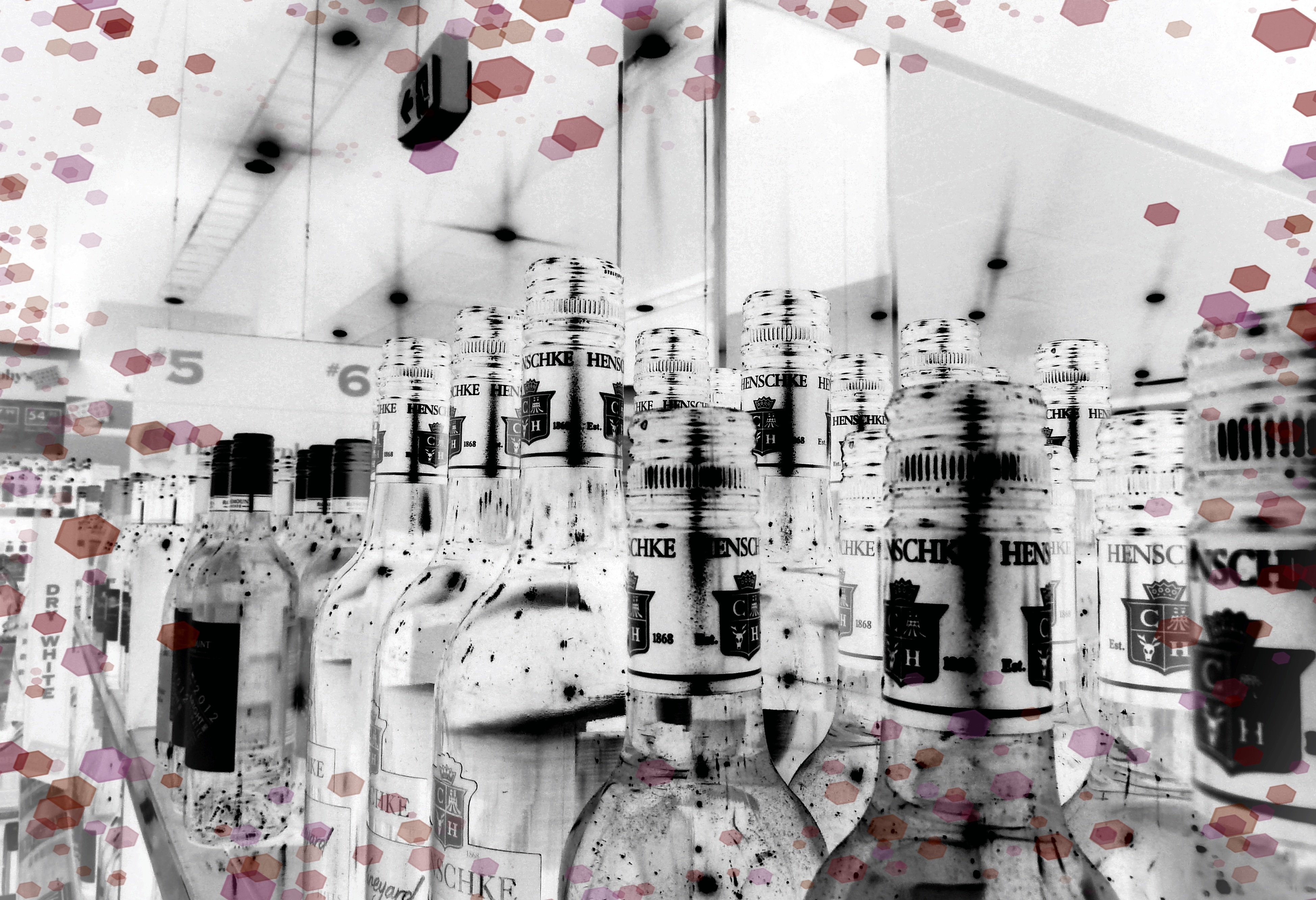 Delirium Tremor (For my nephew, Vic!) :)